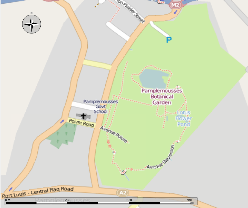 Open Street Map of the Paplemousses Botanical Garden. Created in the Marble program.